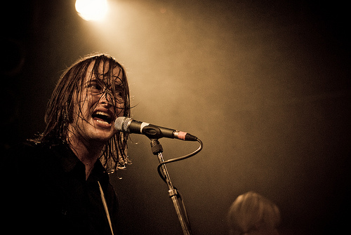 Photo of jason stollsteimer from the US band the von bondies playing live in Koln